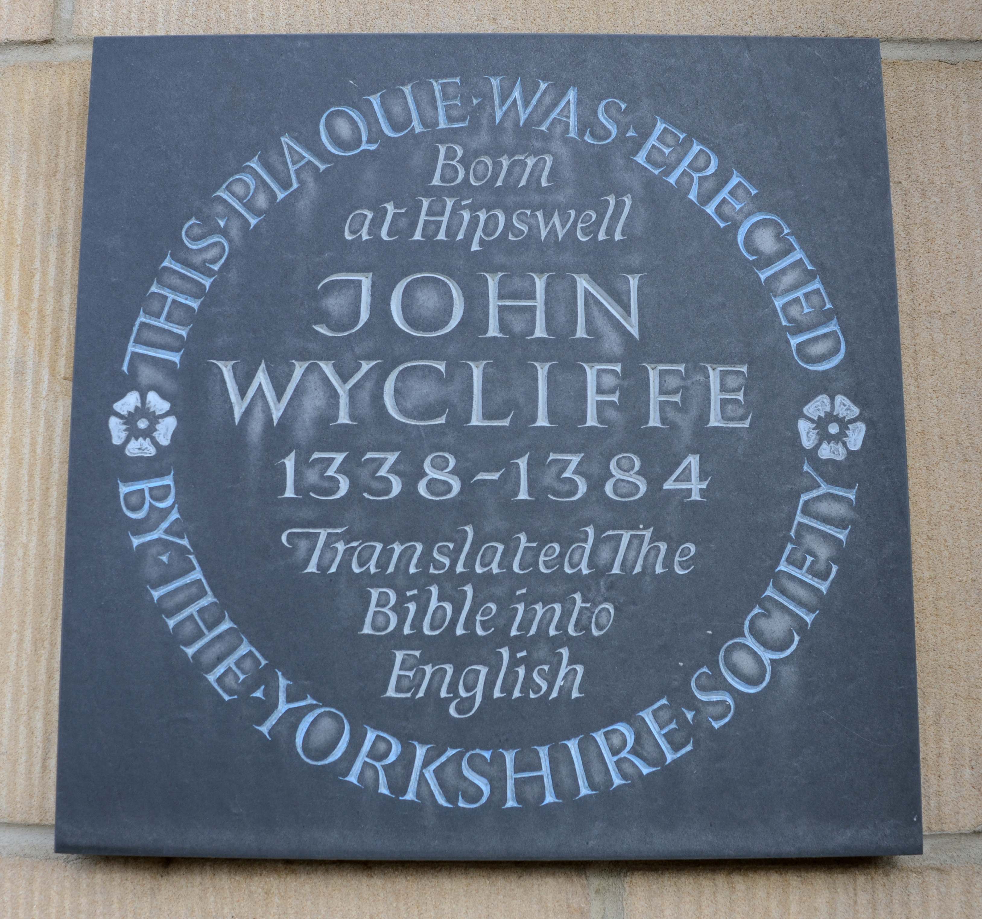 Commemorative plaque in Richmond, Yorkshire